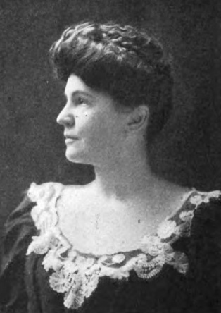 A white woman, in profile, dark hair in a bouffant updo, wearing a scoop-neck dress with lace trim.